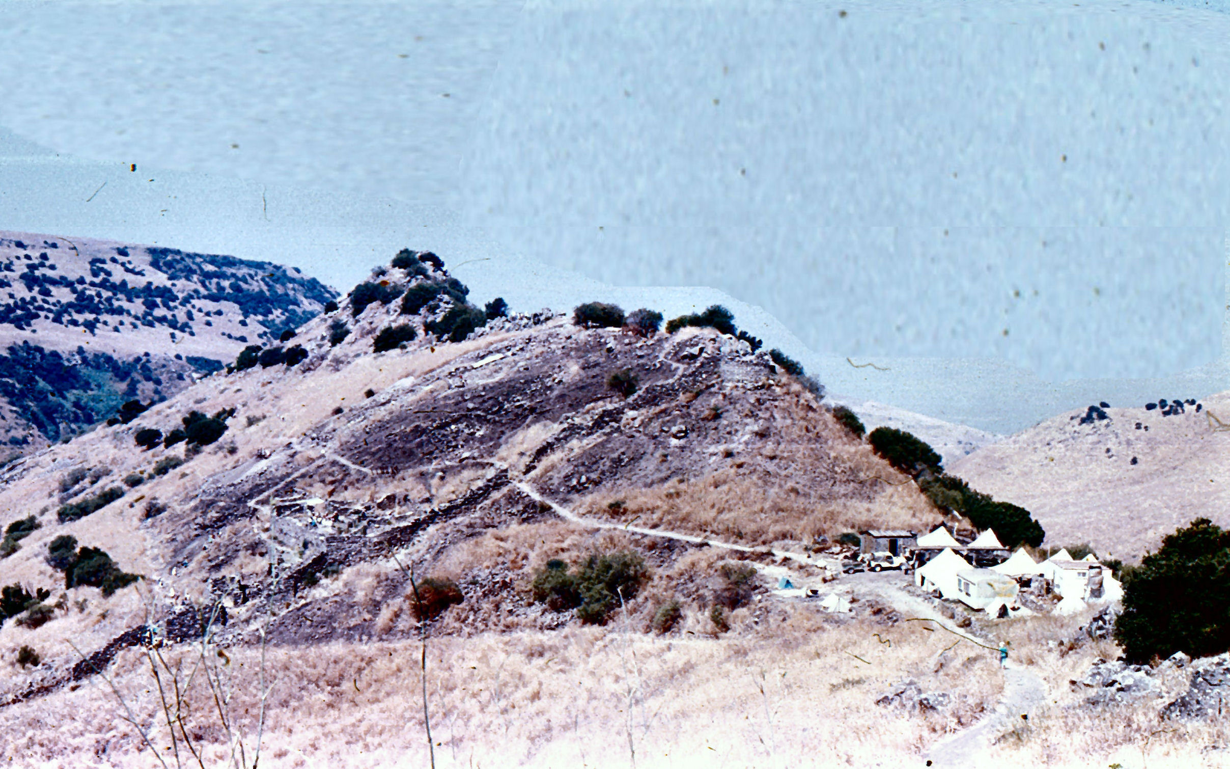 Gamla_the_Archeologic_camp_with_Smariu_Gutman